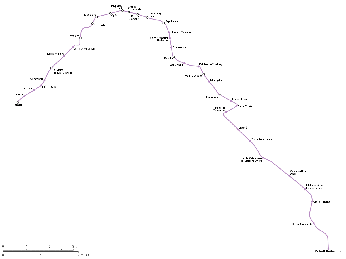 Geographically accurate path of Paris metro line 8, before 2011-10-08.